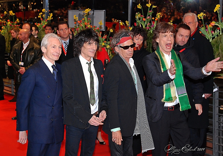 The Rolling Stones (from left to right: Charlie Watts, Ron Wood, Keith Richards, Mick Jagger) at the Berlin Film Festival (Filmfestspiele Berlin/Berlinale) on February 7, 2008 for the world premiere of Martin Scorsese's concert documentary Shine a Light about the band.